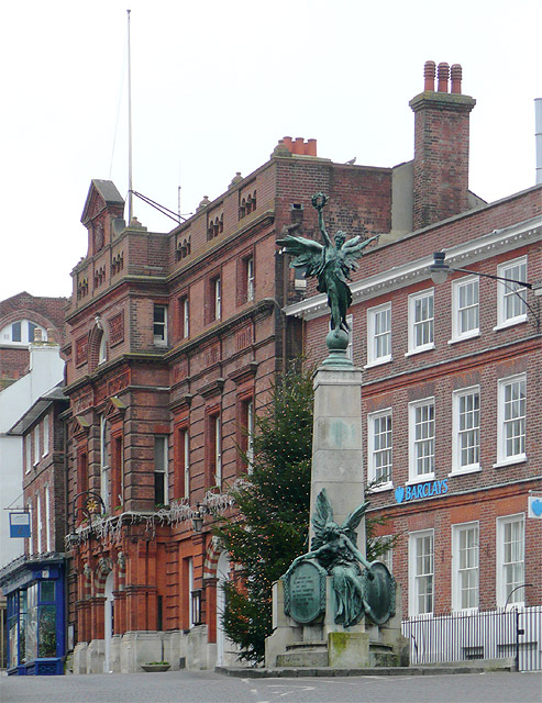 High Street, Lewes, East Sussex At the junction with Market Street, the War Memorial is in front of the town hall.